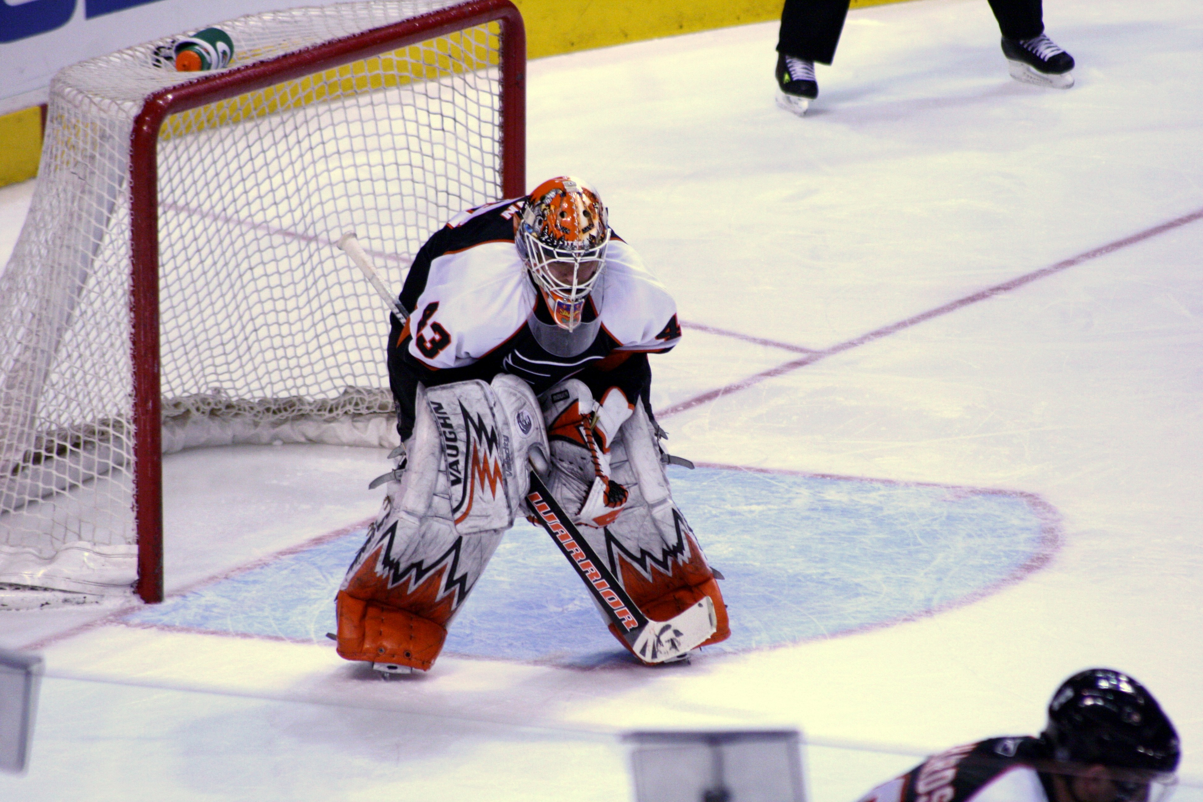 Philadelphia Flyers goalkeeper Martin Biron, modified with Windows Vista